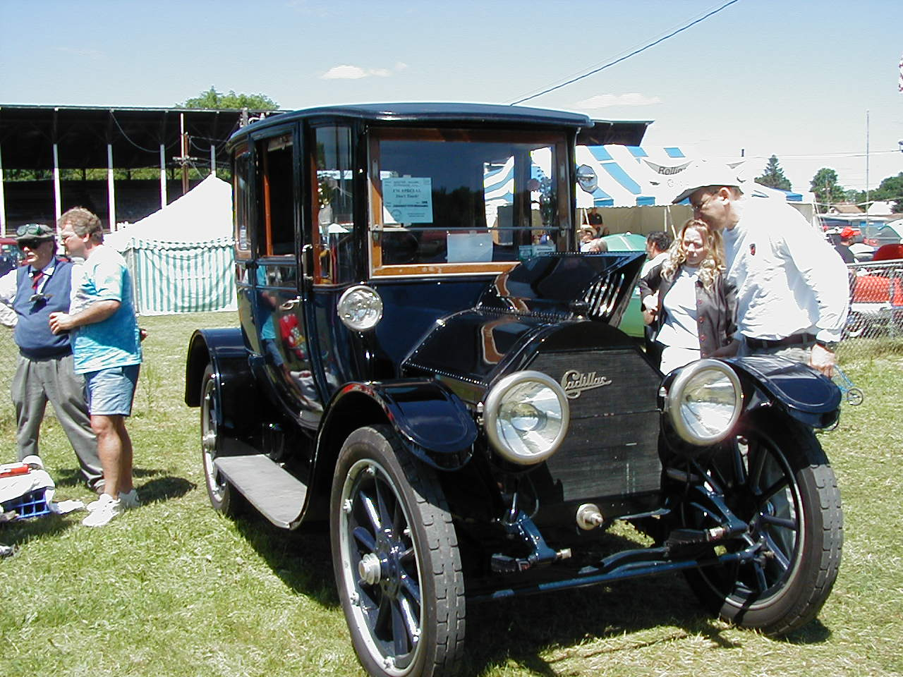 1917 1914 CadillacThis center-door body shape is described in Cadillac advertisements as "Sedan (five passenger)"Owned by Walt Miller 1917 1914 CadillacThis body shape is described in Cadillac advertisements as "Sedan (five passenger)"